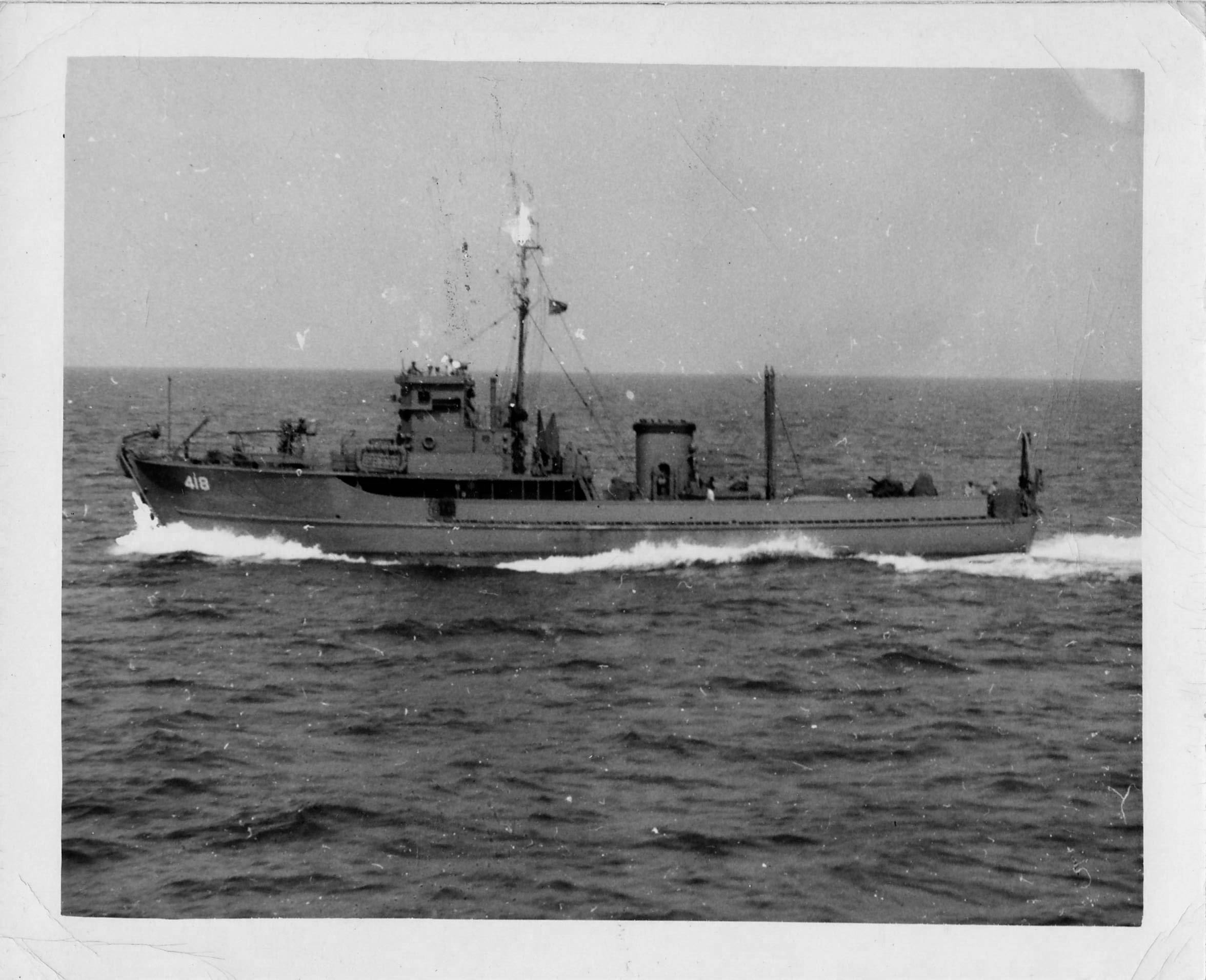 mine sweeper YMS-418